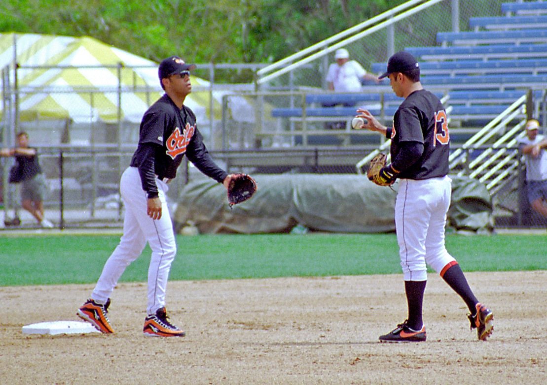 Baltimore Orioles second baseman Roberto Alomar, left, flips the baseball to shortstop Ozzie Guillen during a March 1998 spring training game against the Montreal Expos in Jupiter, Florida.